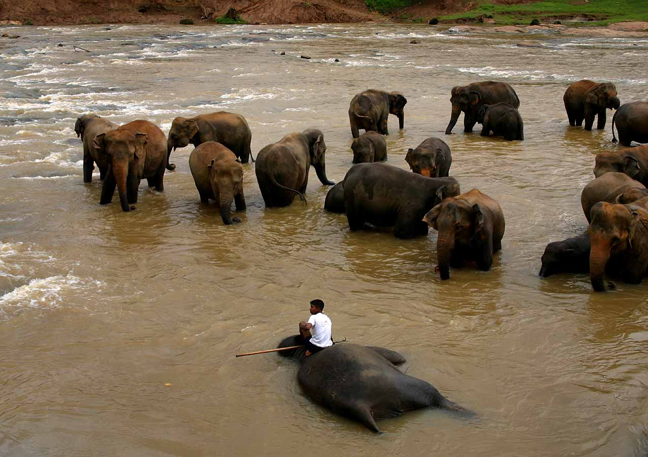 Elephants in Sri Lanka